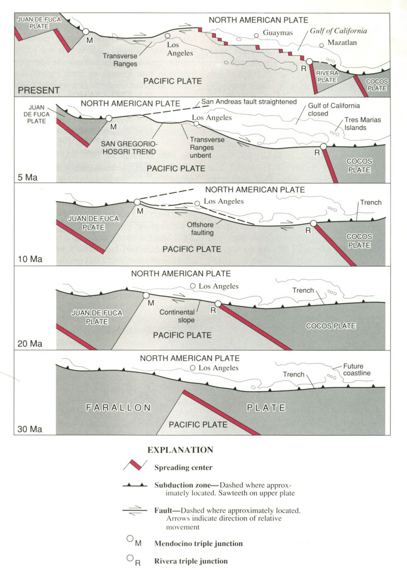 Sequential diagrams showing plate-tectonic evolution of the San Andreas transform fault system (modified from Dickinson, 1981). From: "The San Andreas Fault System, California" US Geological Survey Professional Paper 1515; Chapter 3, "Geology and Plate Tectonic Development" by William P. Irwin, p75